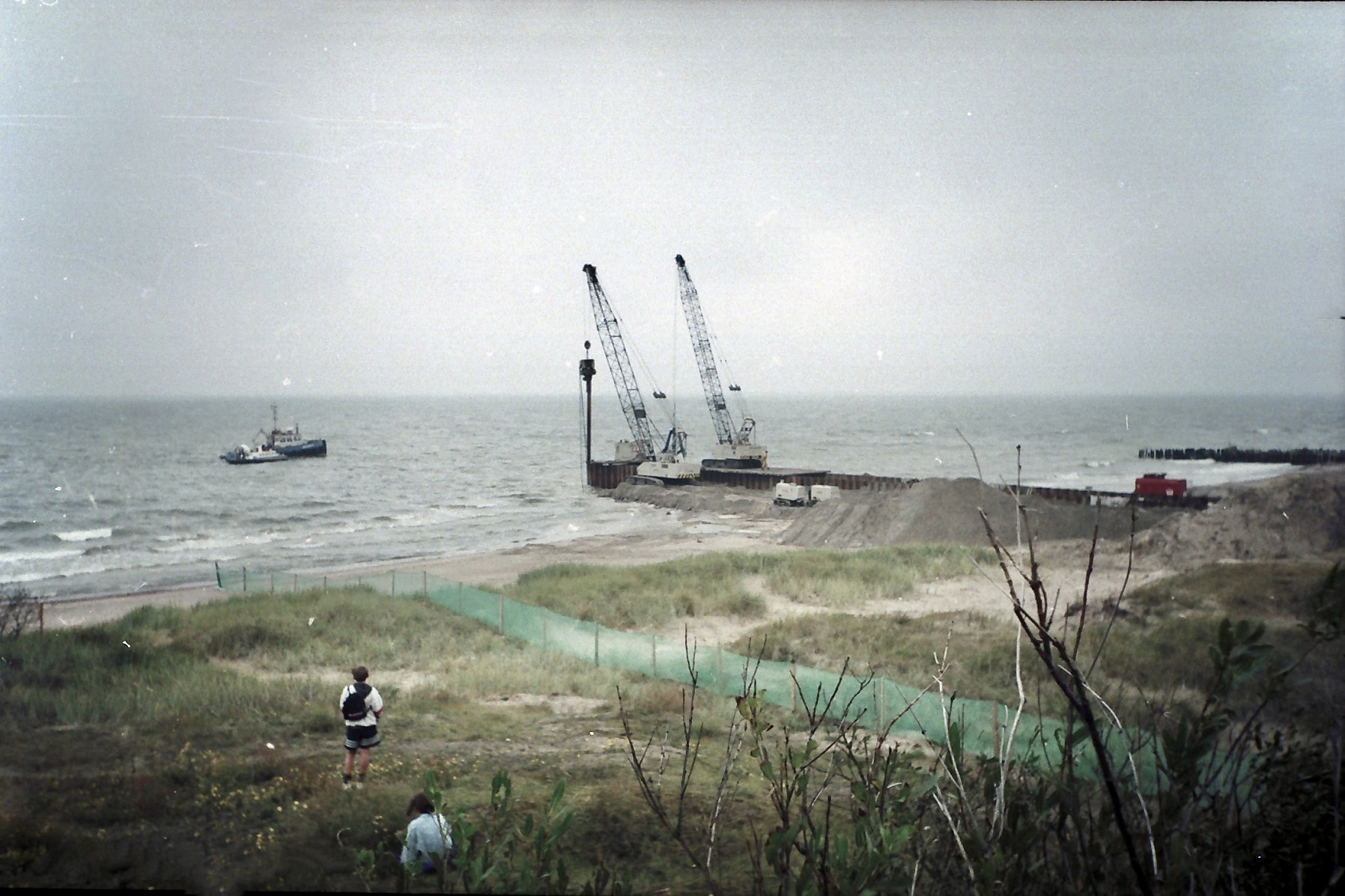 Construction of Butingė oil terminal, Lithuania